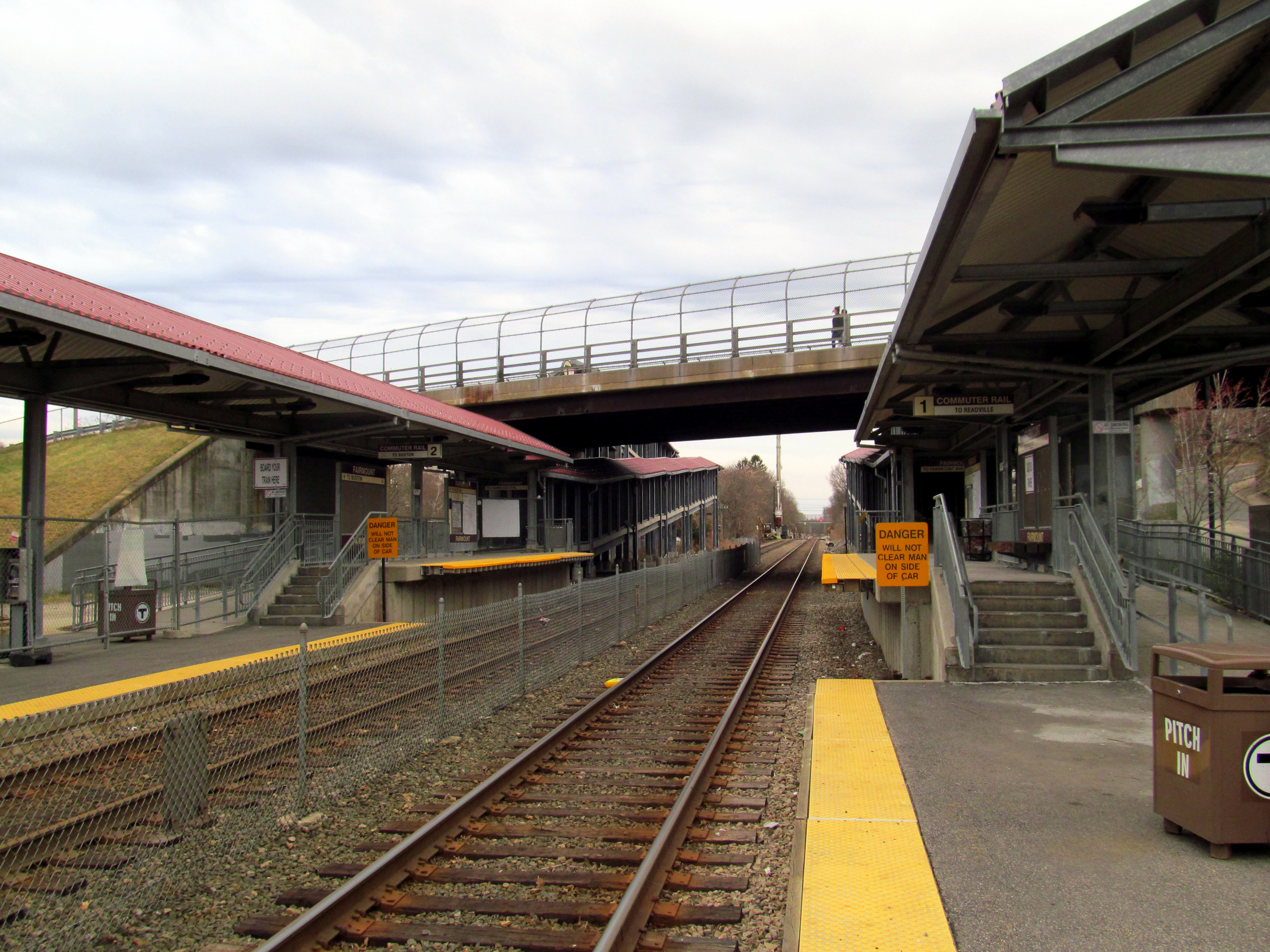 A view looking outbound from the low platforms at Fairmount. The mini-highs (1-car-length high-level platforms), handicapped access ramps, and Fairmount Avenue bridge are visible.